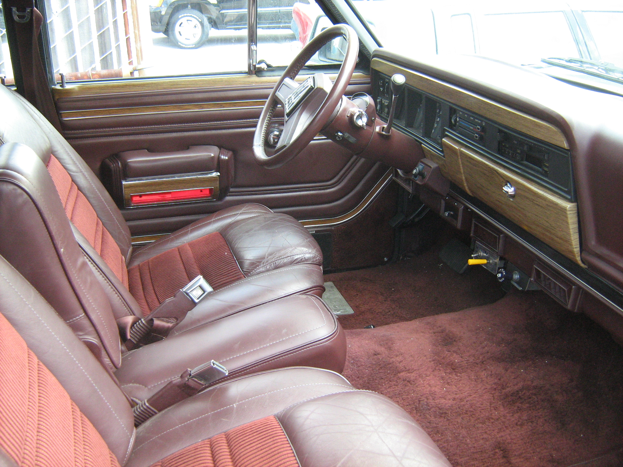 Interior view a Jeep Grand Cherokee with snow blade. Photographed in Maryland.